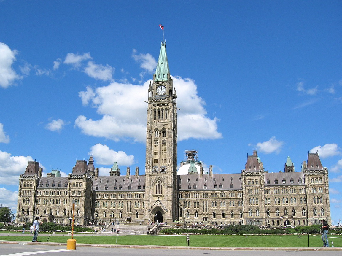 This is a cropped and brightened version of Image:DenglerSW-Parliament-Ottawa-20050730-1280x960.jpg. Edited by Jeffery Nichols (User:Arctic.gnome) December 14, 2006. Original image info: Canadian Parliament Buildings, Ottawa, Canada, Shot 2005 Jul 30 by Steven W. Dengler. Resolution: 1280 x 960 Contact steven[at]dengler[point]net for larger resolutions of this photo, or to inquire about commercial use.